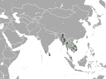 Fishing Cat (Prionailurus viverrinus) range